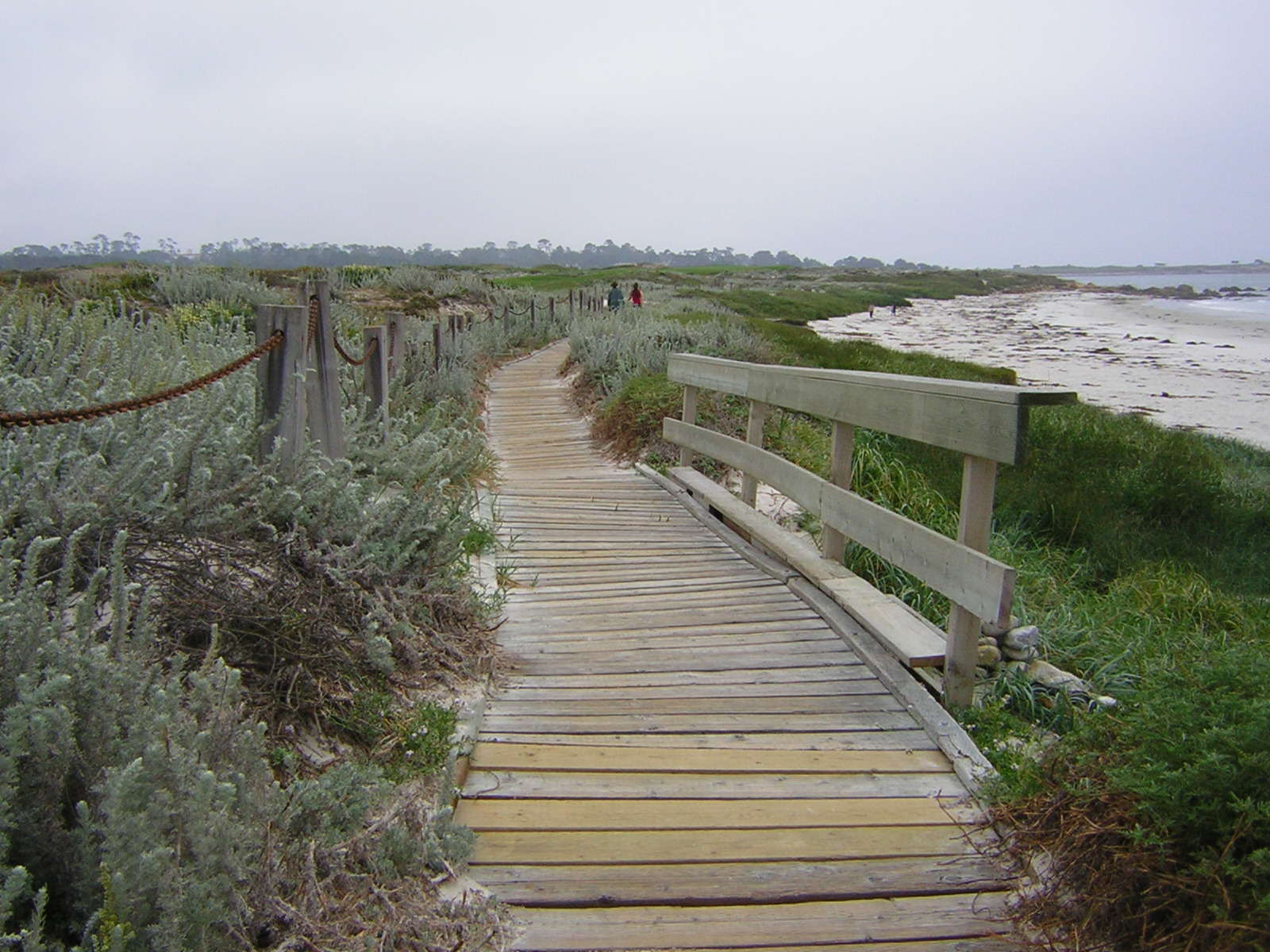 Redwood walkway at Asilomar State Beach, Pacific Grove, California, USA